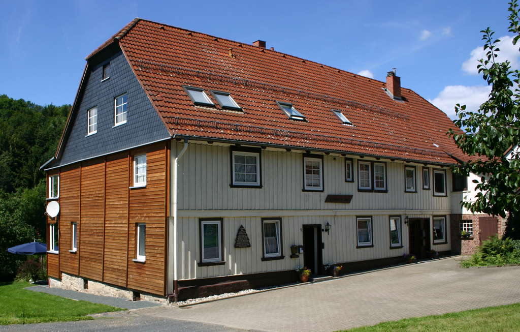 half-timbered house in Lerbach, Germany